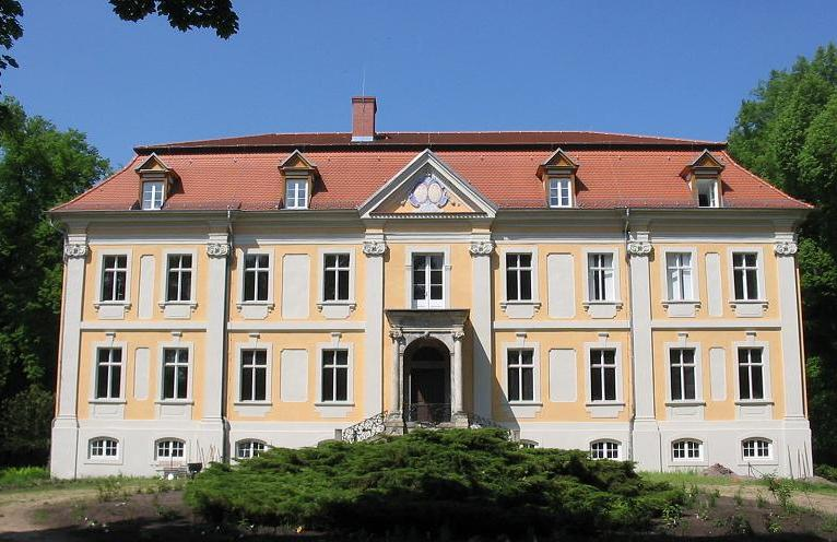 Palace in Stülpe, a village (part) of the municipality Nuthe-Urstromtal in Brandenburg, Germany. The palace was built in 1754 by order of Adam Ernst von Rochow.